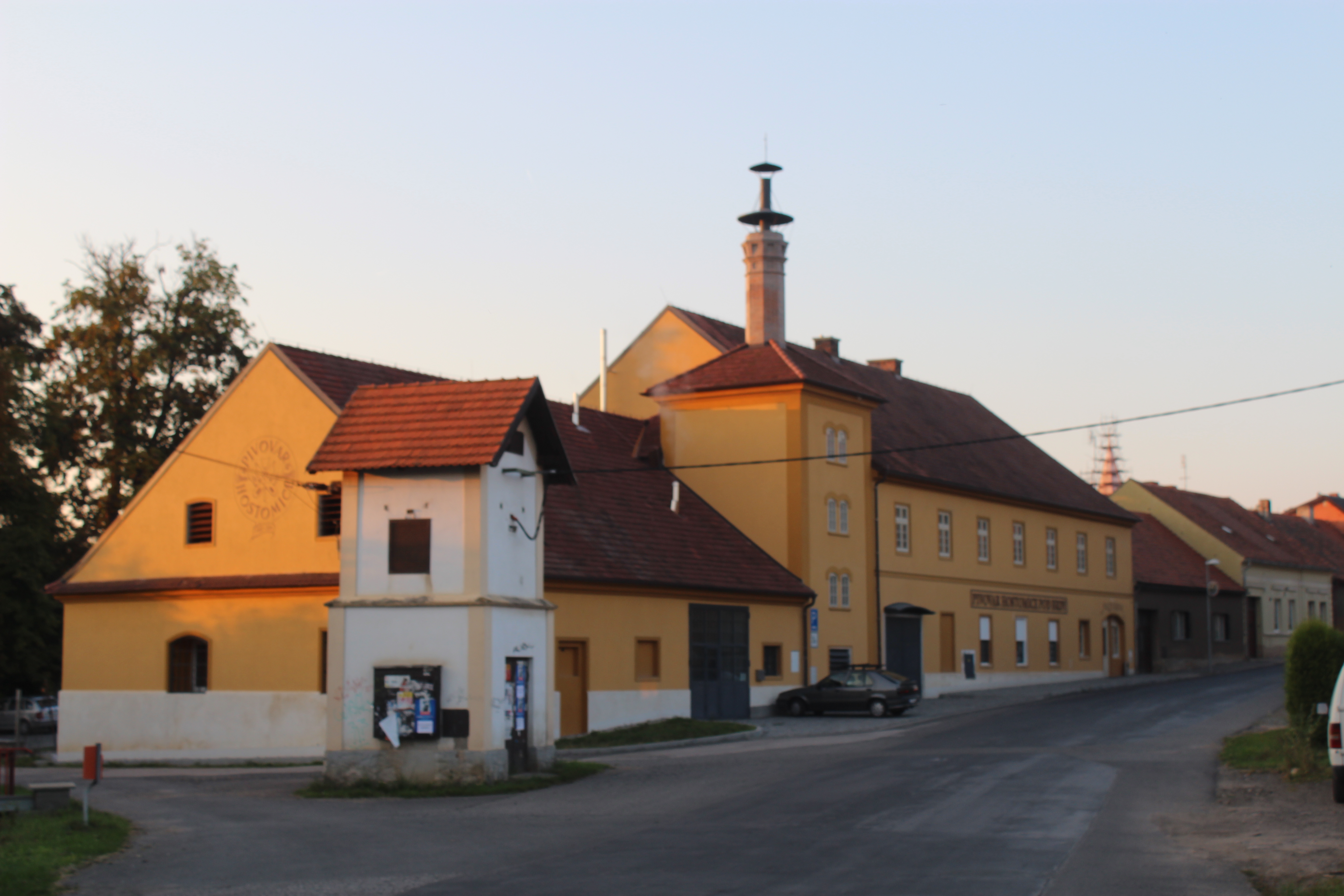 Hostomice Pivovar